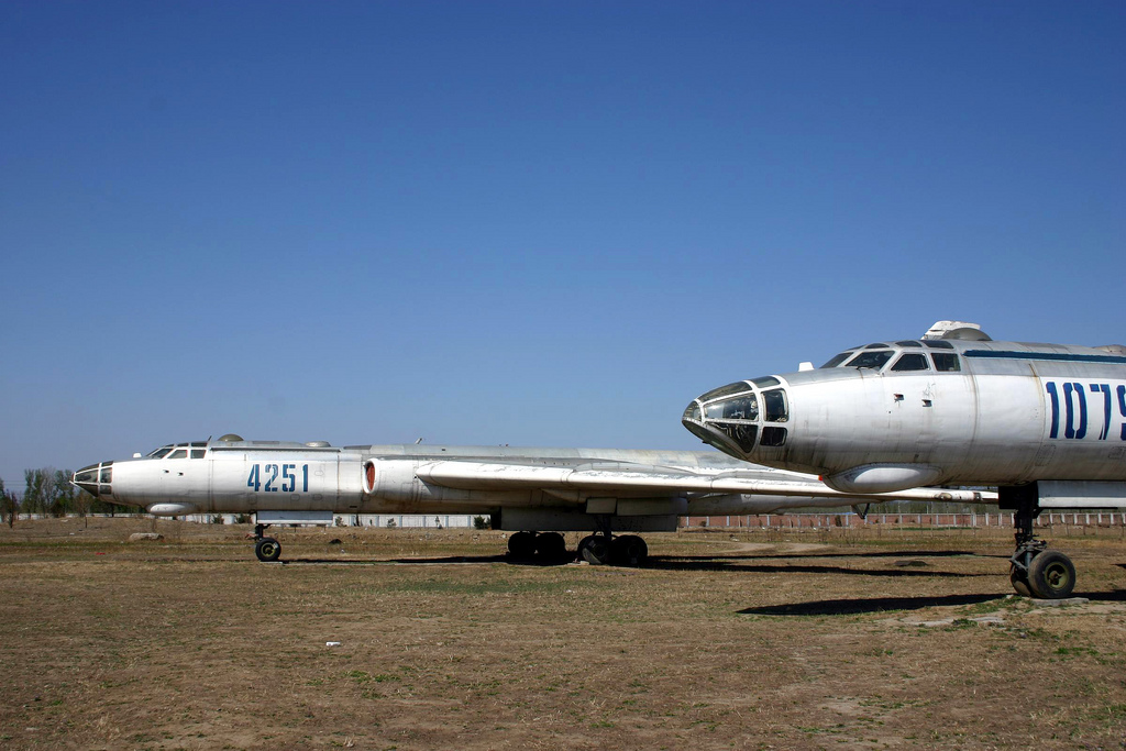 The member who uploaded this image on Flickr is no longer active. Note: While this photo was claimed to have been taken in Iraq, they are actually Xian H-6 bombers displayed at the China Aviation Museum in Beijing (Note the aircraft's serial no. in this photo from another Flickr user).